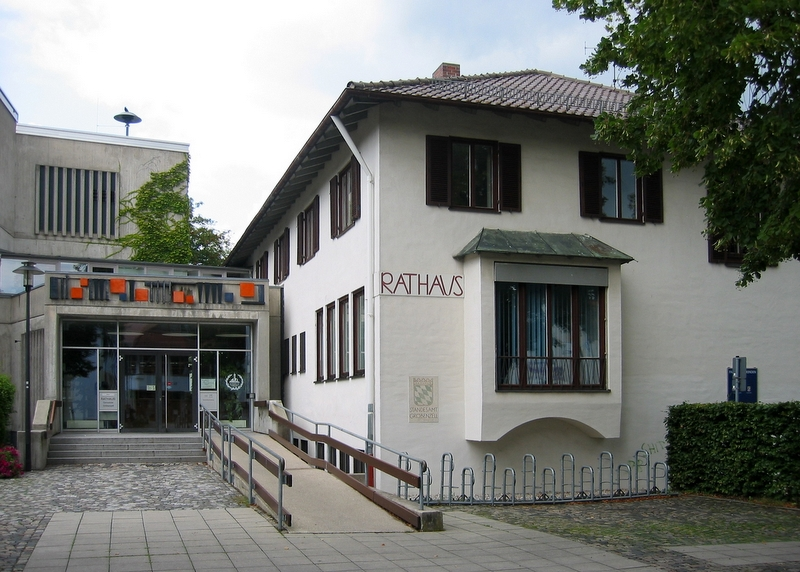 Town hall of Gröbenzell, old section, built in 1954.